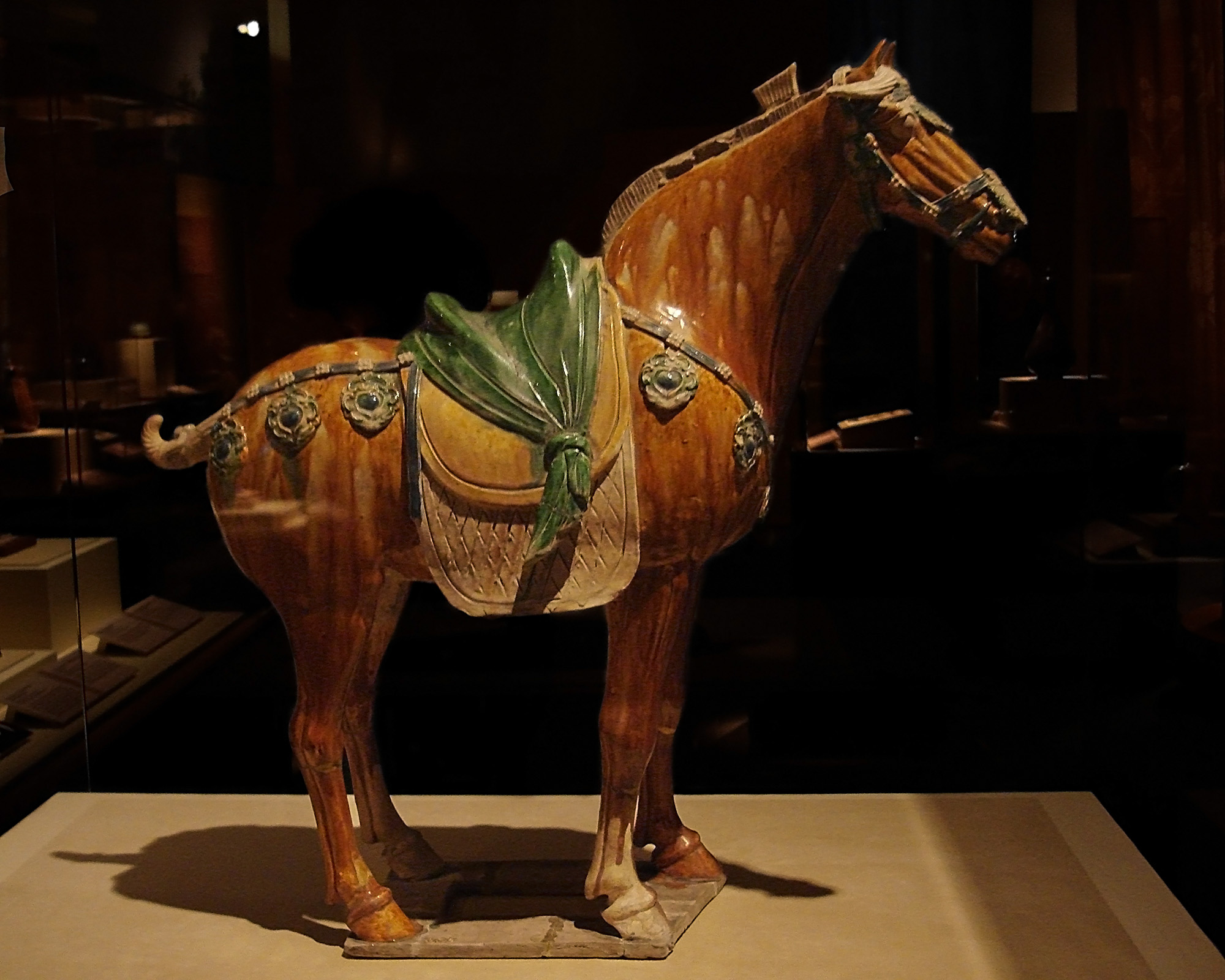 Exhibition "Treasures of China", Canadian Museum of Civilization, 2007. Tang Dynasty (A.D. 618 - 907) Excavated at Xi'an, Shaanxi Province, 1957 This yellow-glazed pottery horse includes a carefully sculpted saddle, which is decorated with leather straps and ornamental fastenings featuring eight-petalled flowers and apricot leaves.